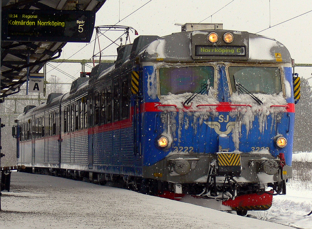 Electric multiple unit at Nyköping, Sweden